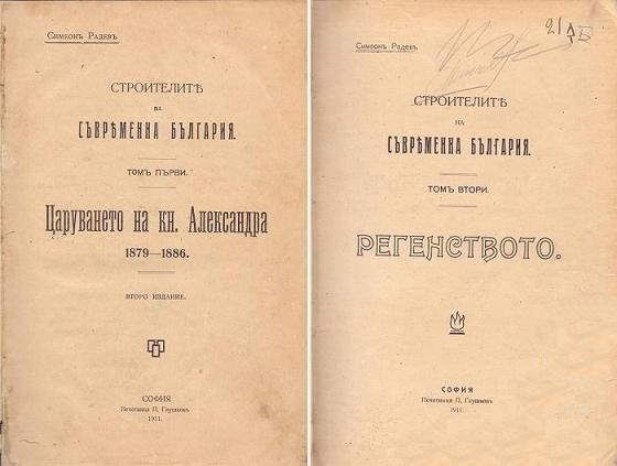 cover book "Builders of Modern Bulgaria"